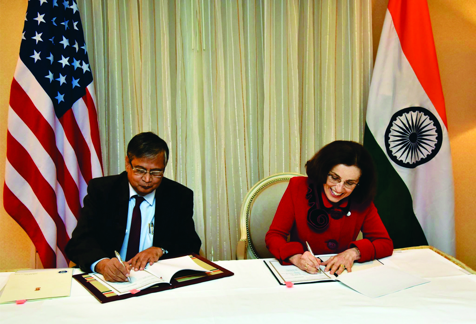 Sekhar Basu signs the cooperation MoU with Director, NSF, Dr. France A Córdova to build a state-of-the-art LIGO in India. March 2016